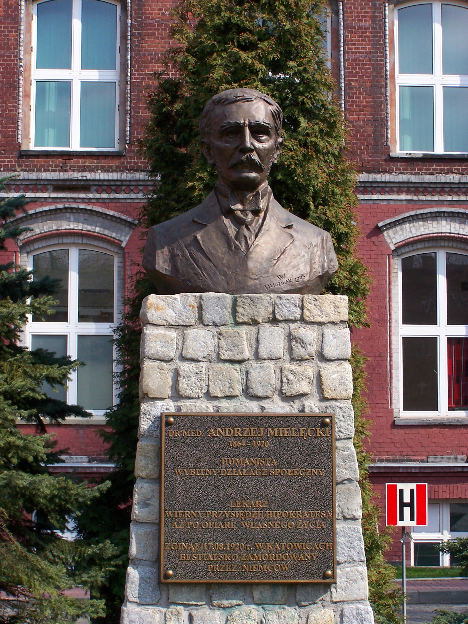 Andrzej Mielęcki (bust in Katowice).